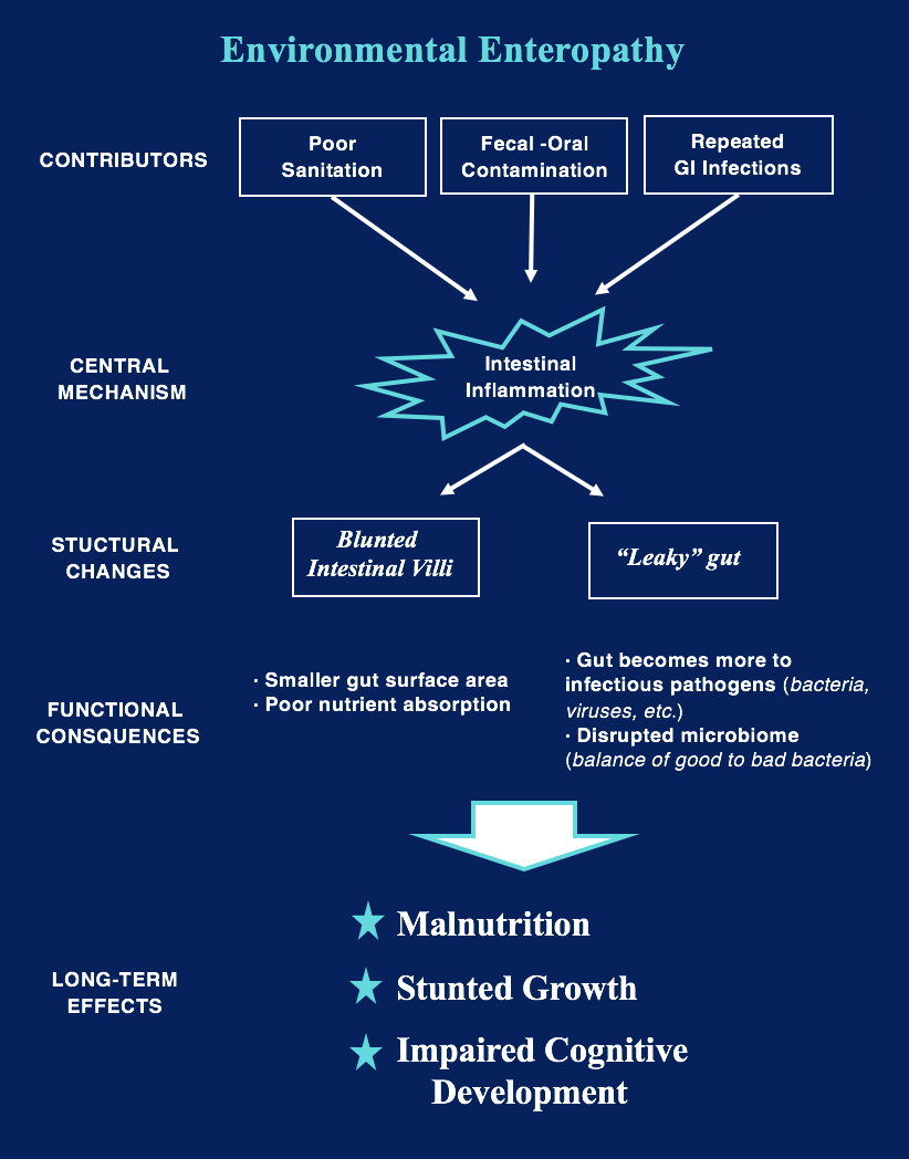 Simplified model outlining the major contributors (mechanism) and consequences of environmental enteropathy.